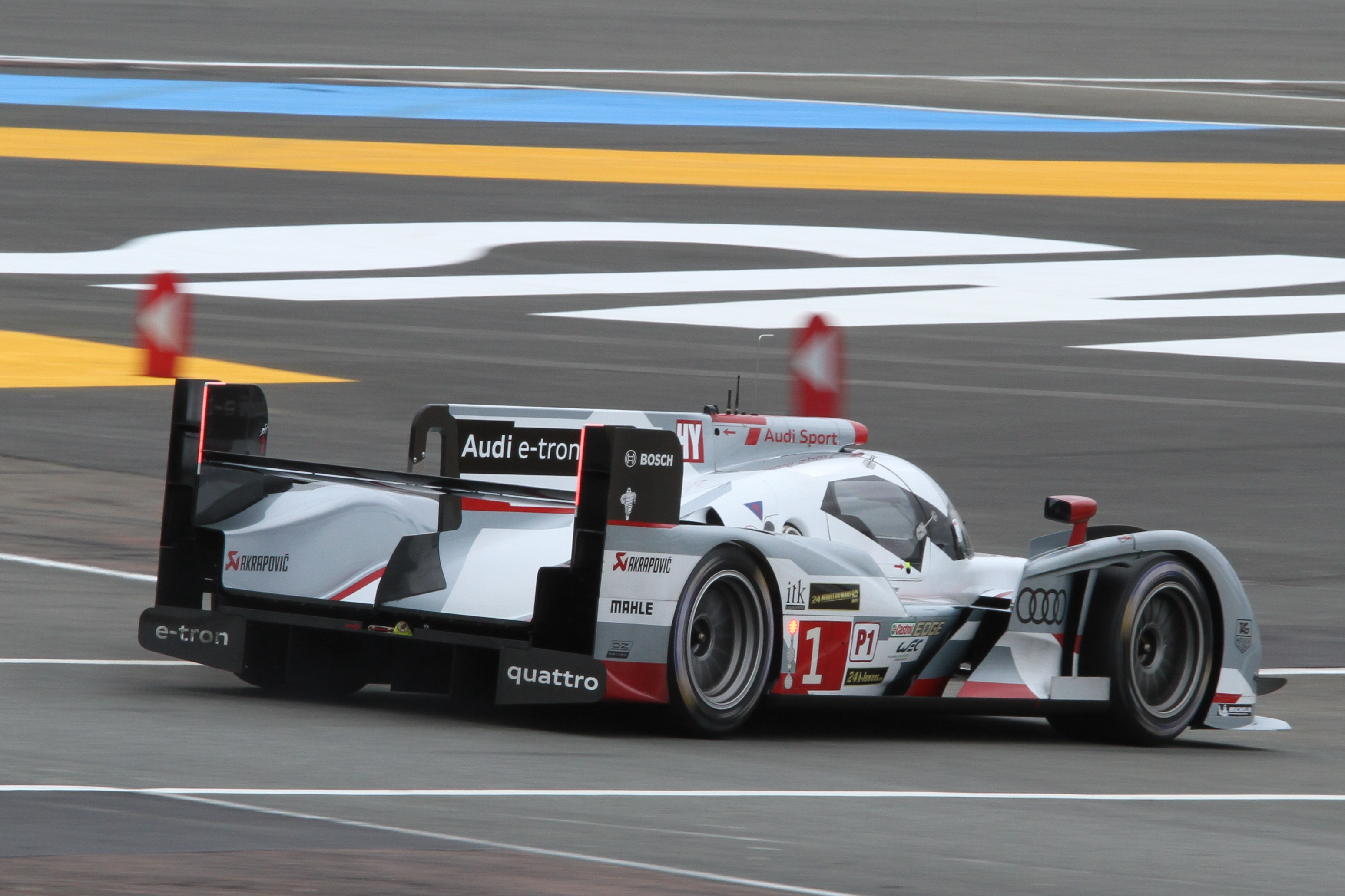 Audi R18 e-tron quattro on the way to the pits at the Le Mans 2013.